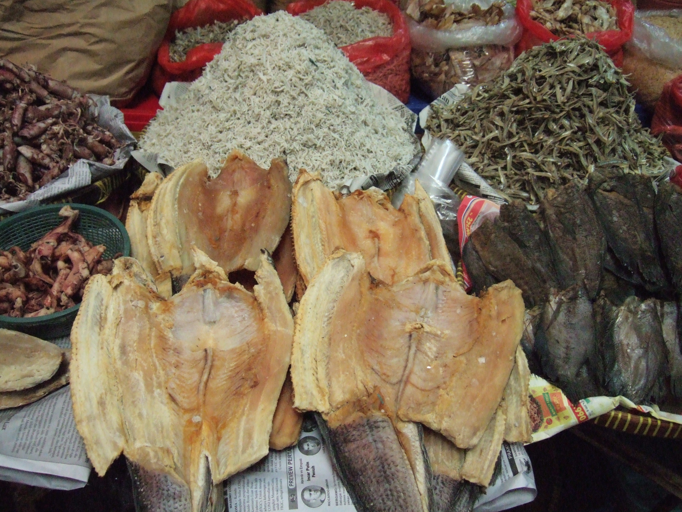 Salted fish at traditional market in North Jakarta, Indonesia.